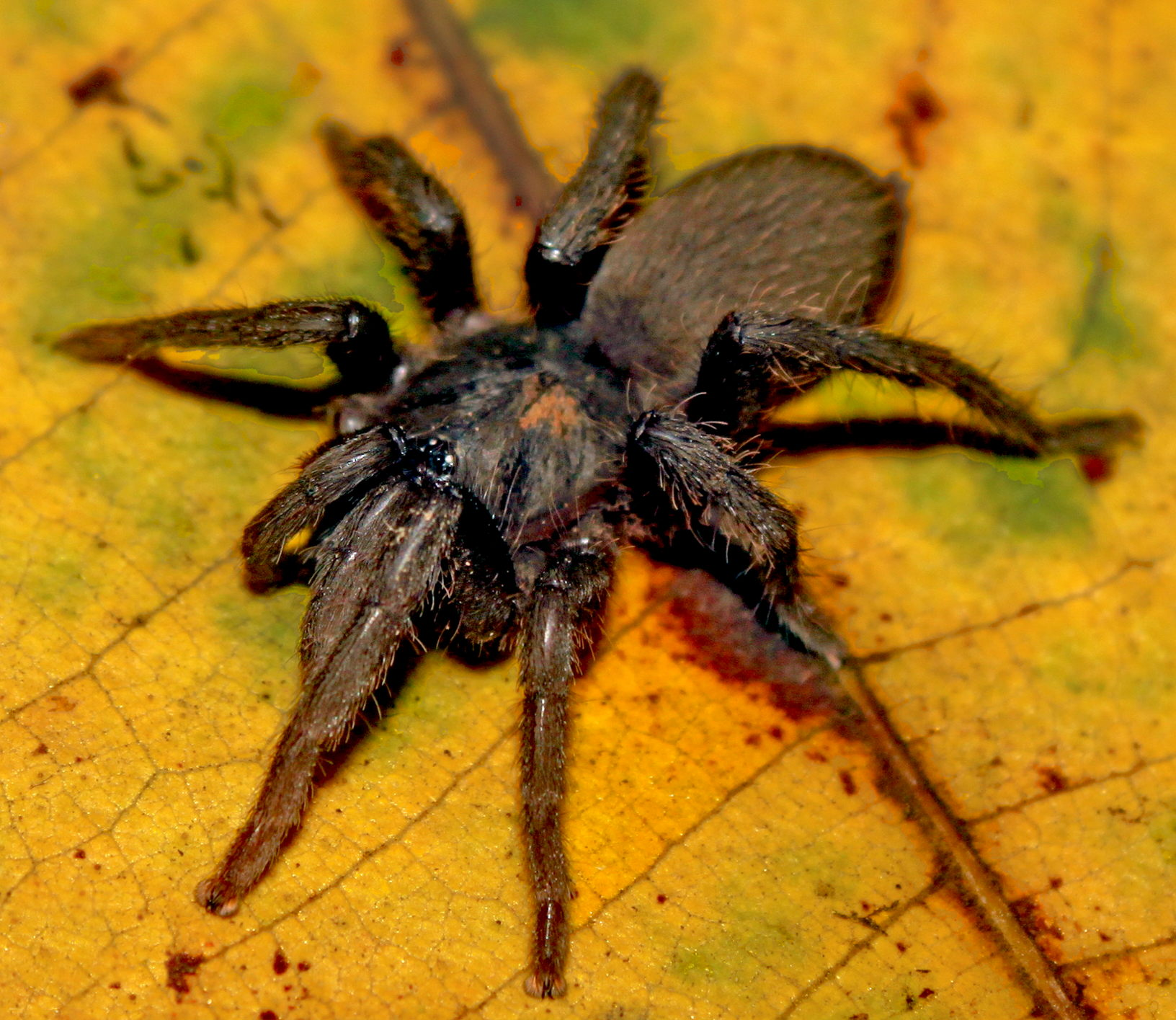 Female Neoheterophrictus smithi